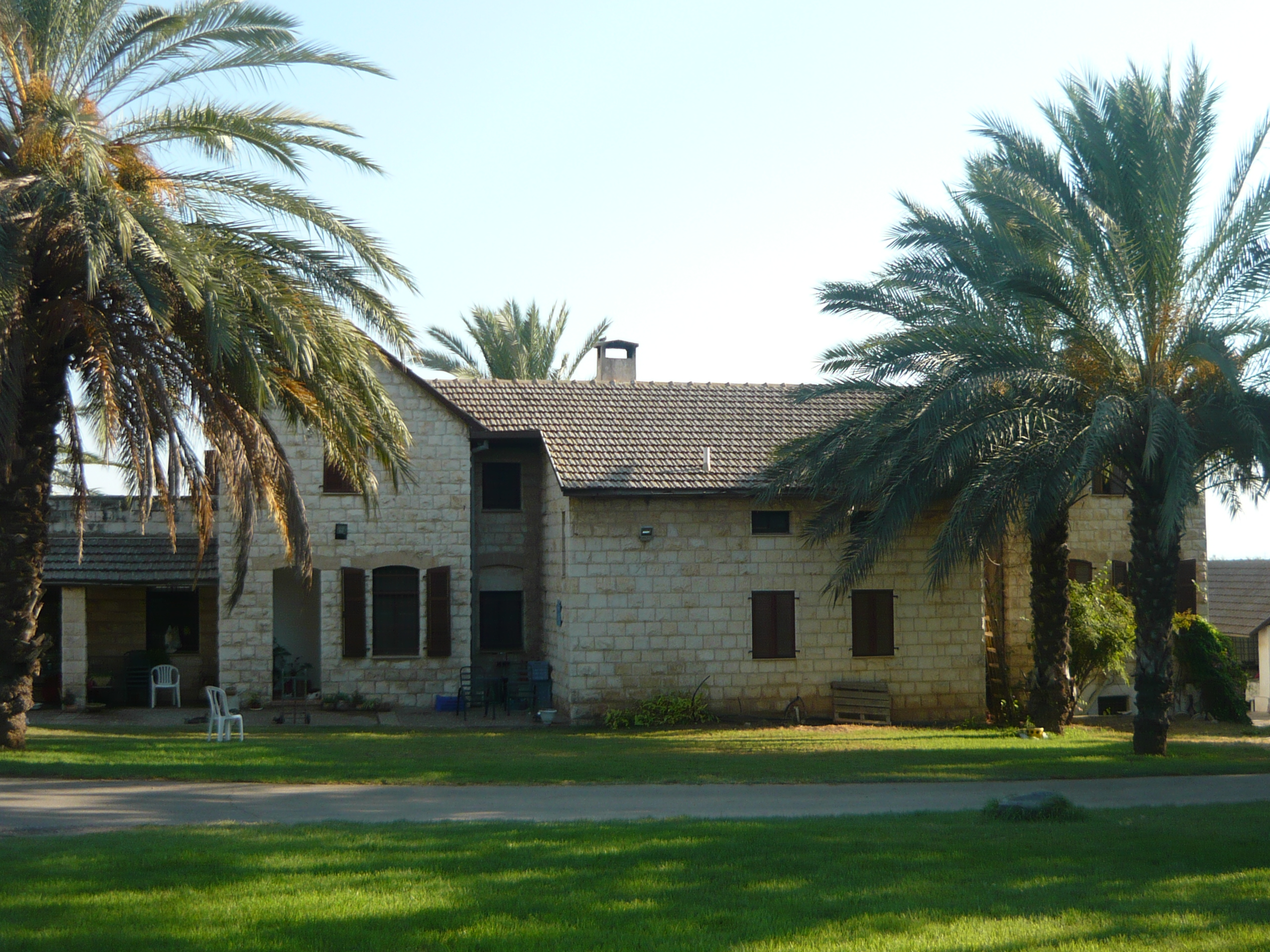 blumenfeld house merhavia בית בלומנפלד, מושב מרחביה